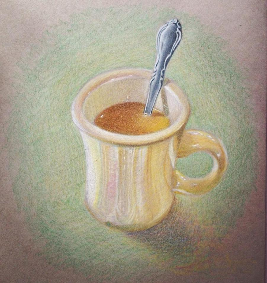 Cross hatching and burnishing techniques both used to render this mug of coffee.